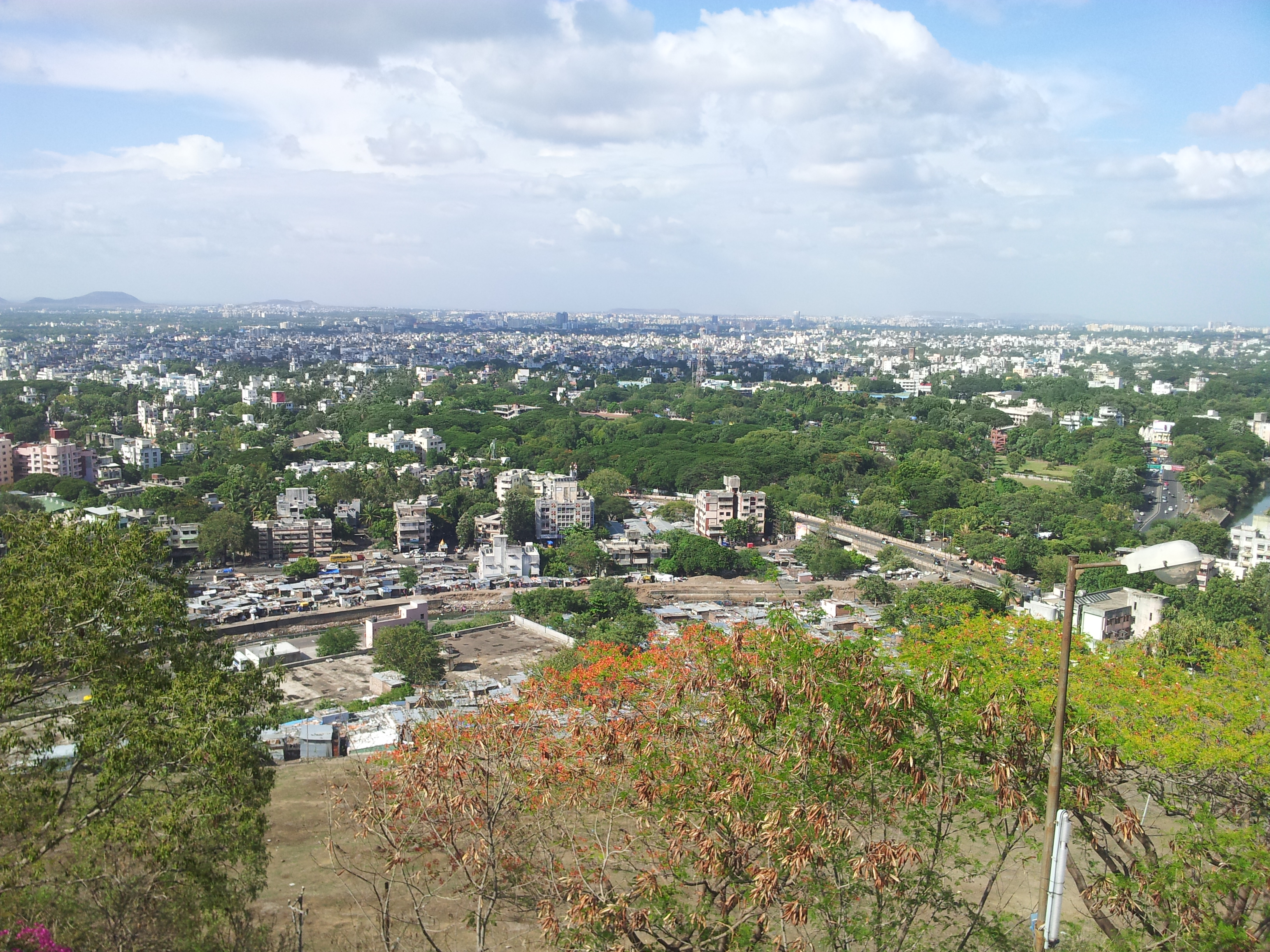 Pune, India